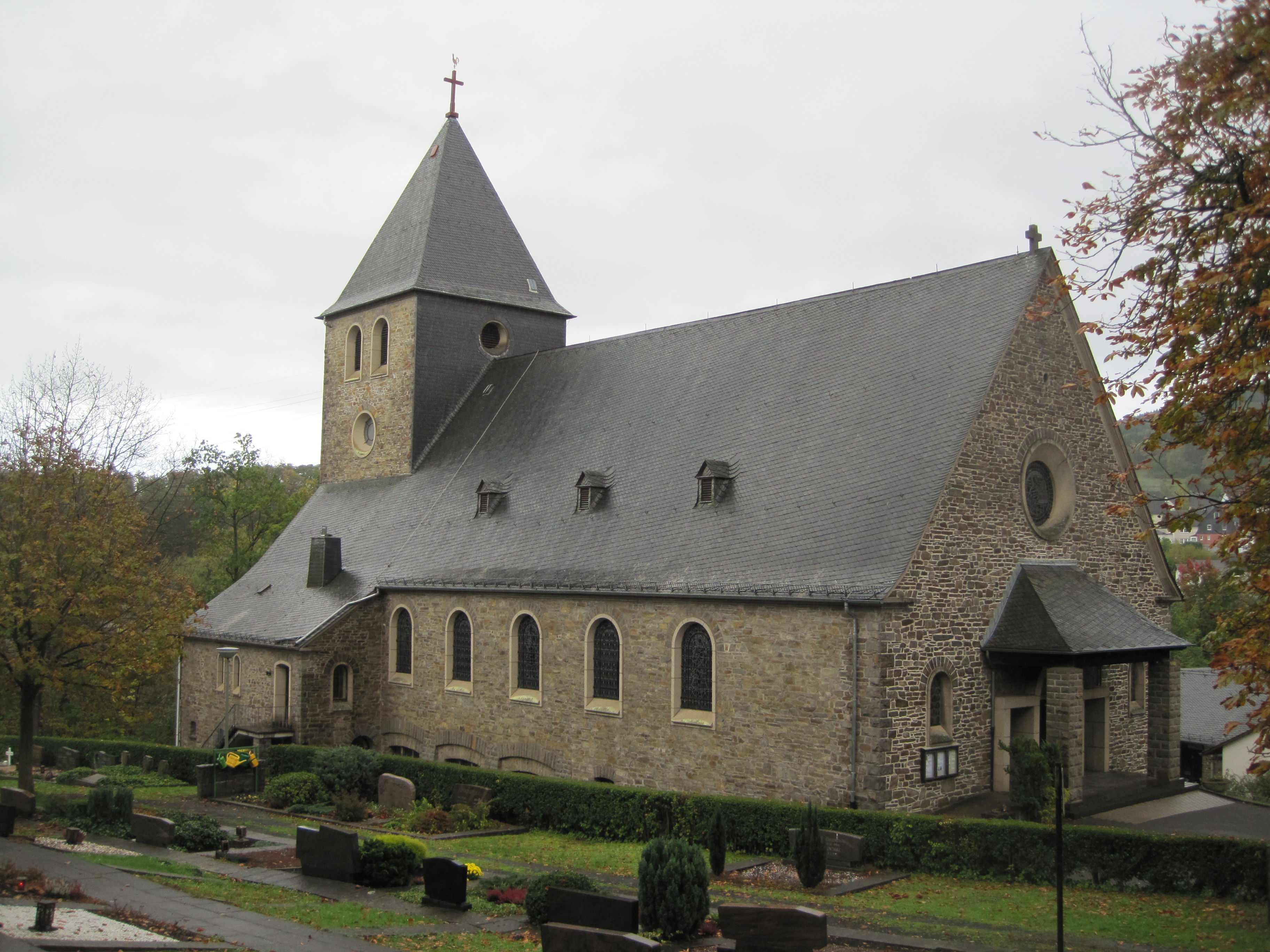 Church, Alsdorf, Germany check usage